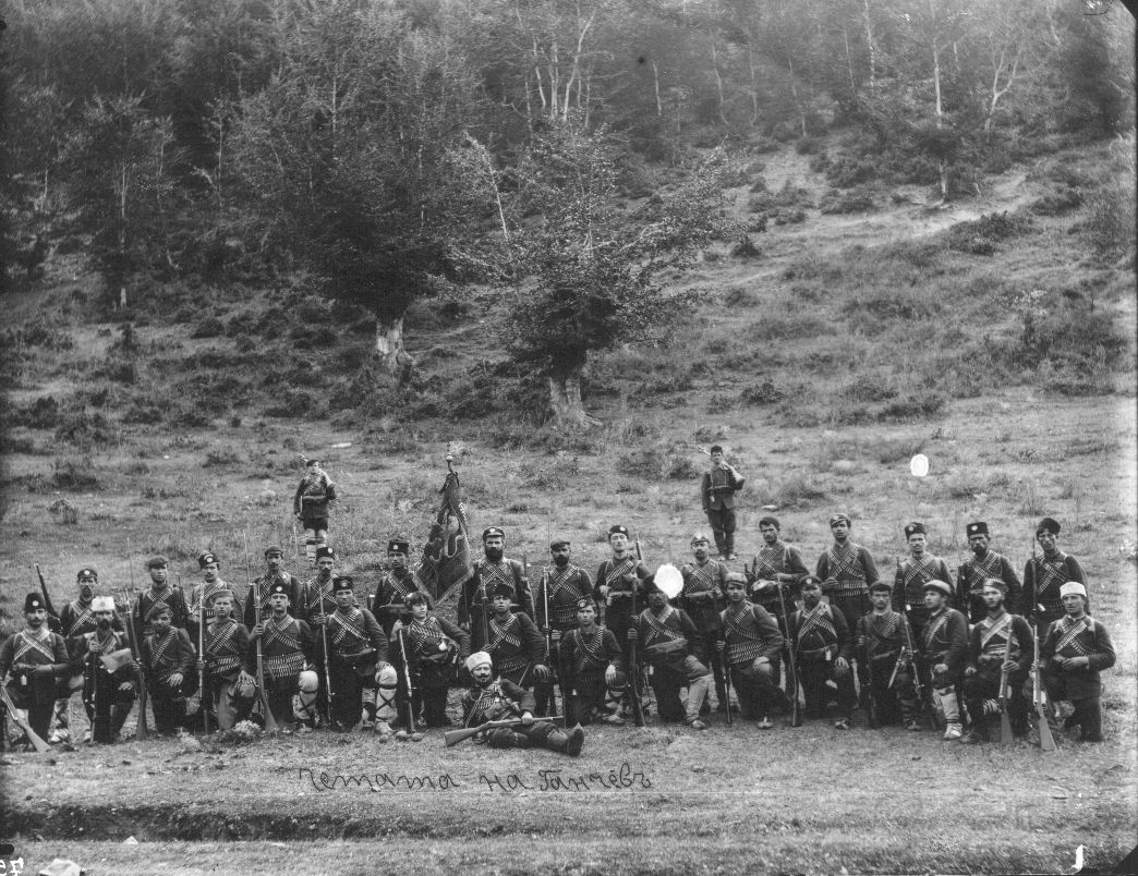 Captain Mihail Gantchev's band.